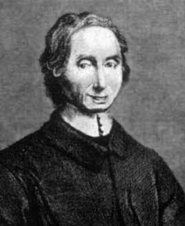 Nicolas Malebranche (1638–1715), French philosopher